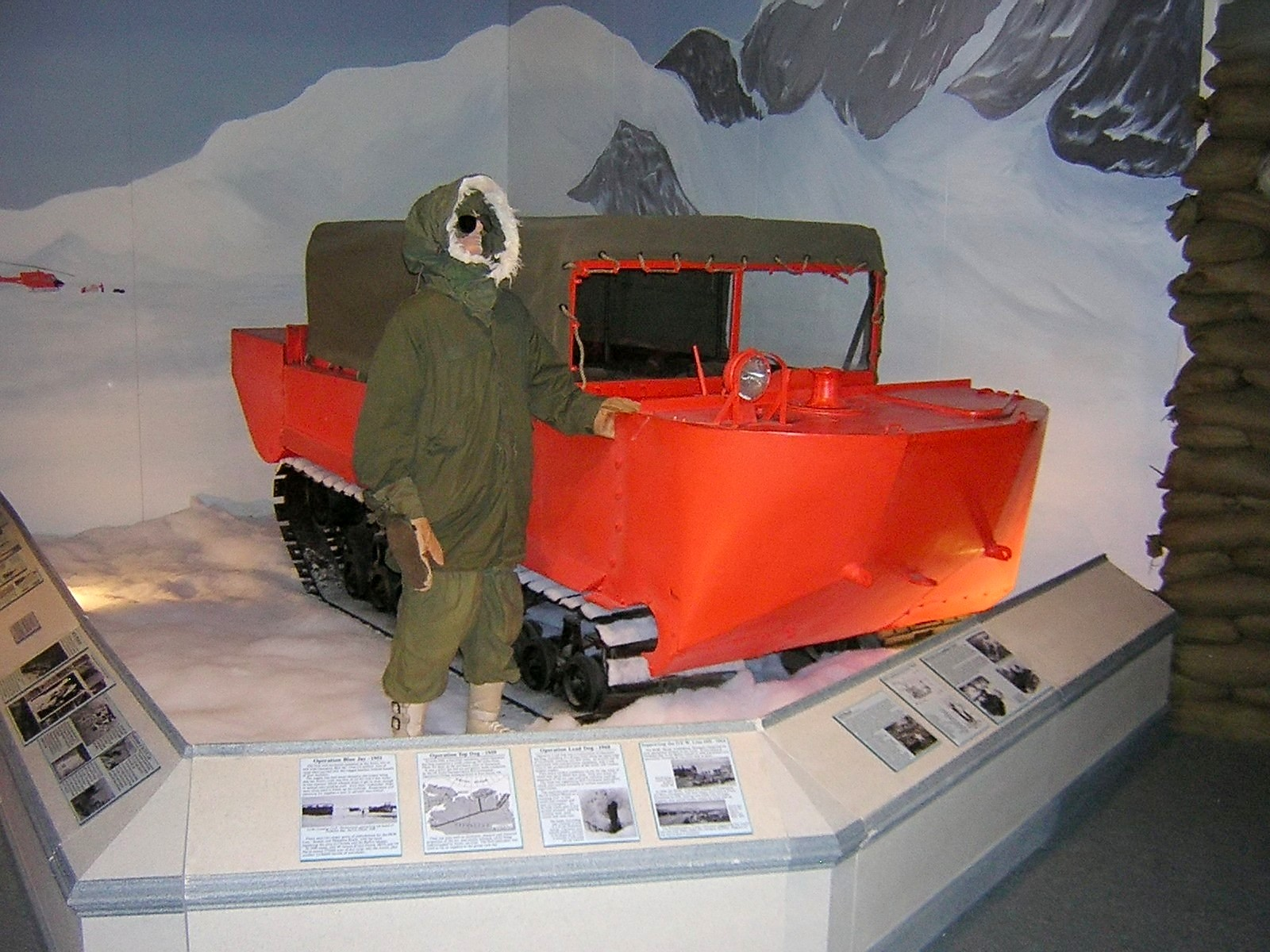 a M29 Weasel in arctic trim, a diorama display at the U.S. Army Transportation Museum, Fort Eustis, Virginia This exhibit is located in the indoor exhibits area (E on map, see key).